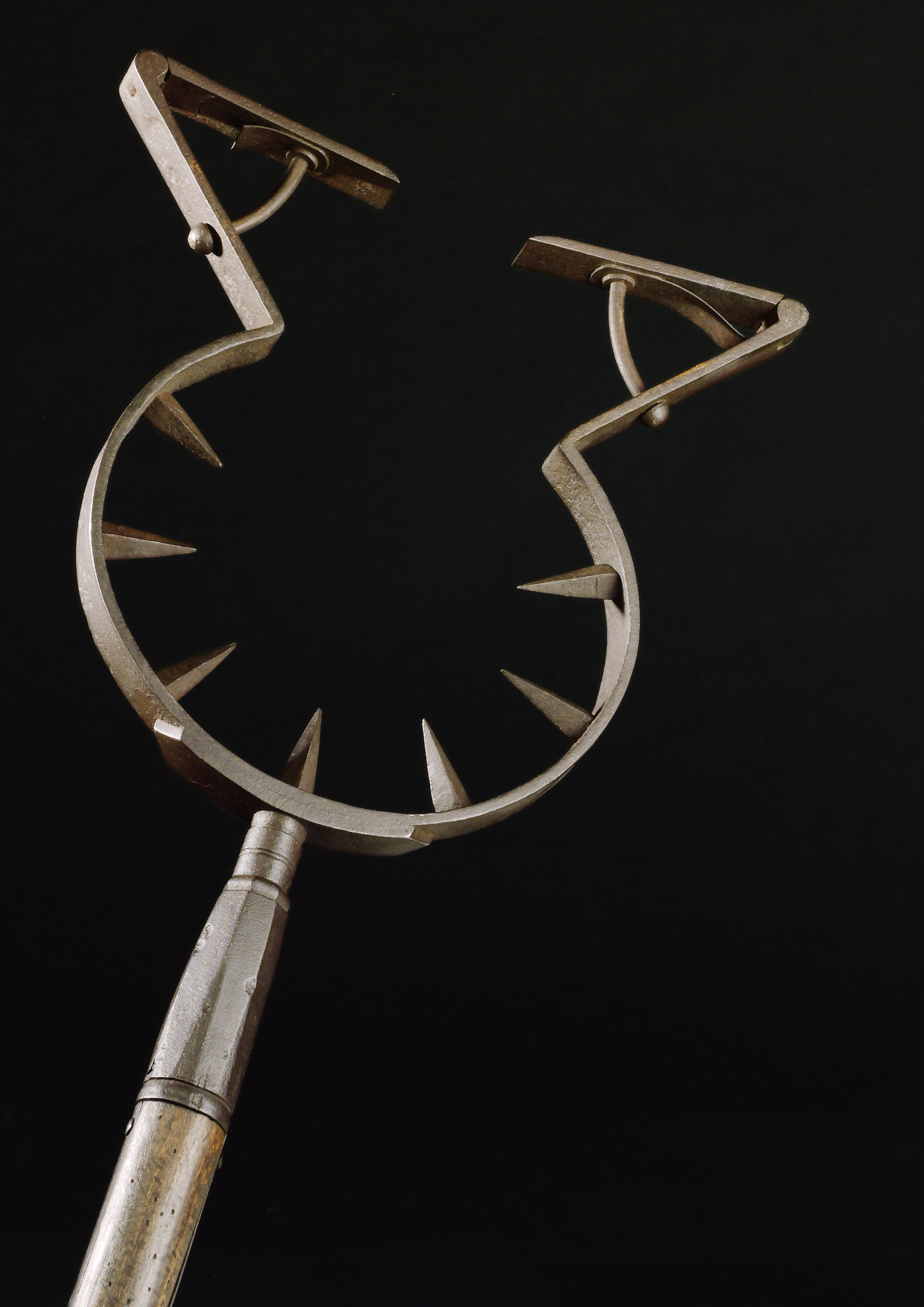 It is believed this hinged spike metal collar on a long wooden pole is a man catcher. It is one of the more unusual items in Henry Wellcome’s vast collection. Man catchers were used in Europe in the late 1700s during times of war. The terrifying collar pulled riders off horseback. In peacetime, it is thought the device may have caught and held escaped prisoners. Henry Wellcome was interested in all aspects of life, including crime and punishment, as well as medicine. maker: Unknown maker Place made: Germany Medical Photographic Library Keywords: man catcher; crime and punishment